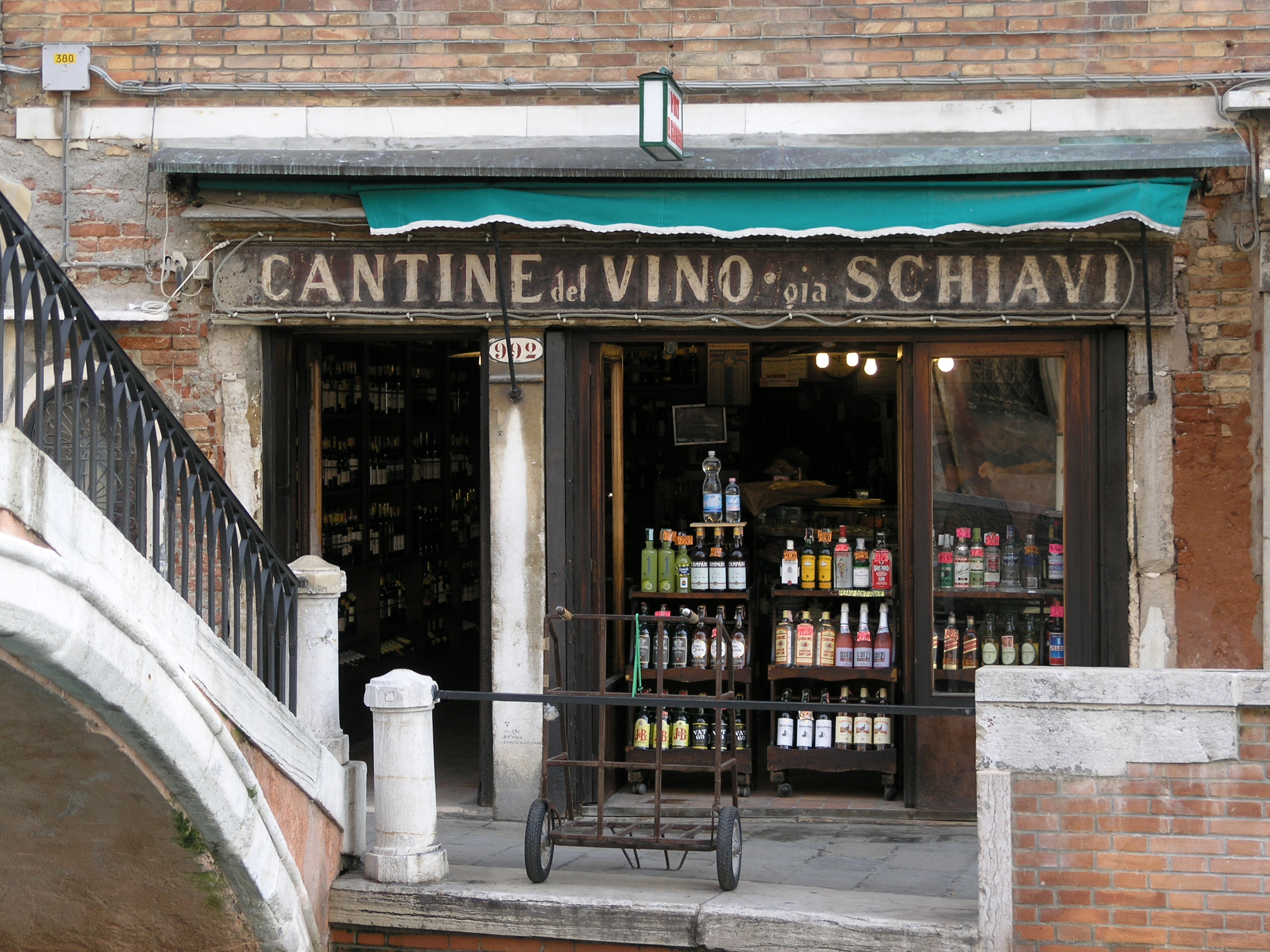 A great place in Venice for a glass of wine and some cicchetti.